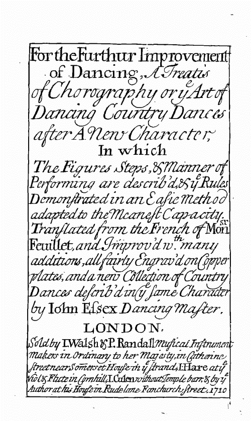 Frontispiece of John Essex's treatise on choreography and the art of dancing country dances, published 1710 in London entitled For the Further Improvement of Dancing. The first English exposition of a dance notation it was translated from the French work Recueil de contredances mises en chorégraphie by Raoul-Auger Feuillet, of 1659 or 60.